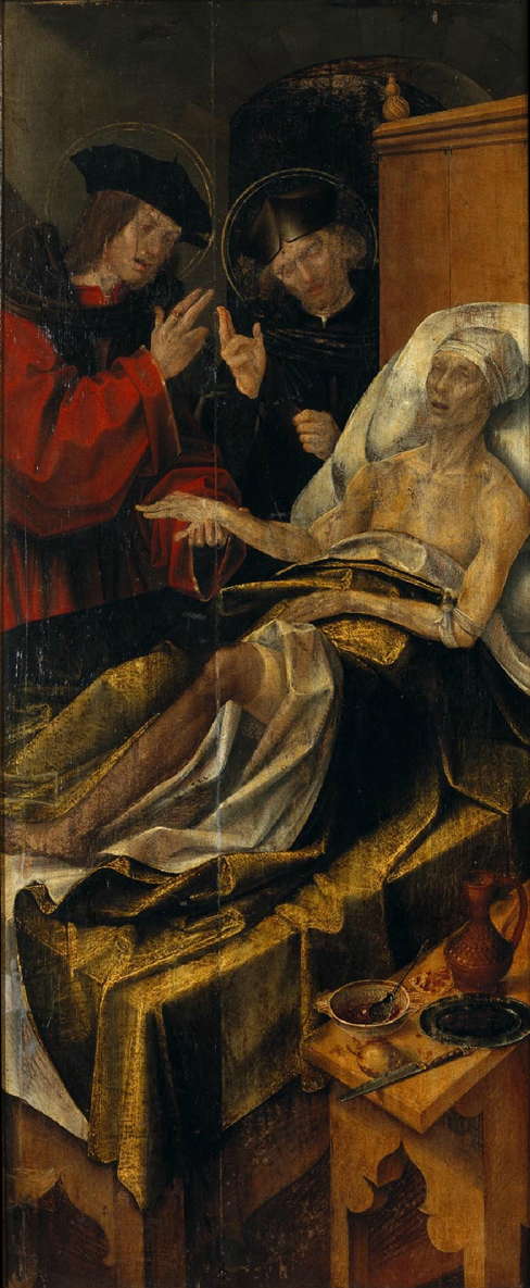 Saints Cosmas and Damian in a 1530s portuguese painting.